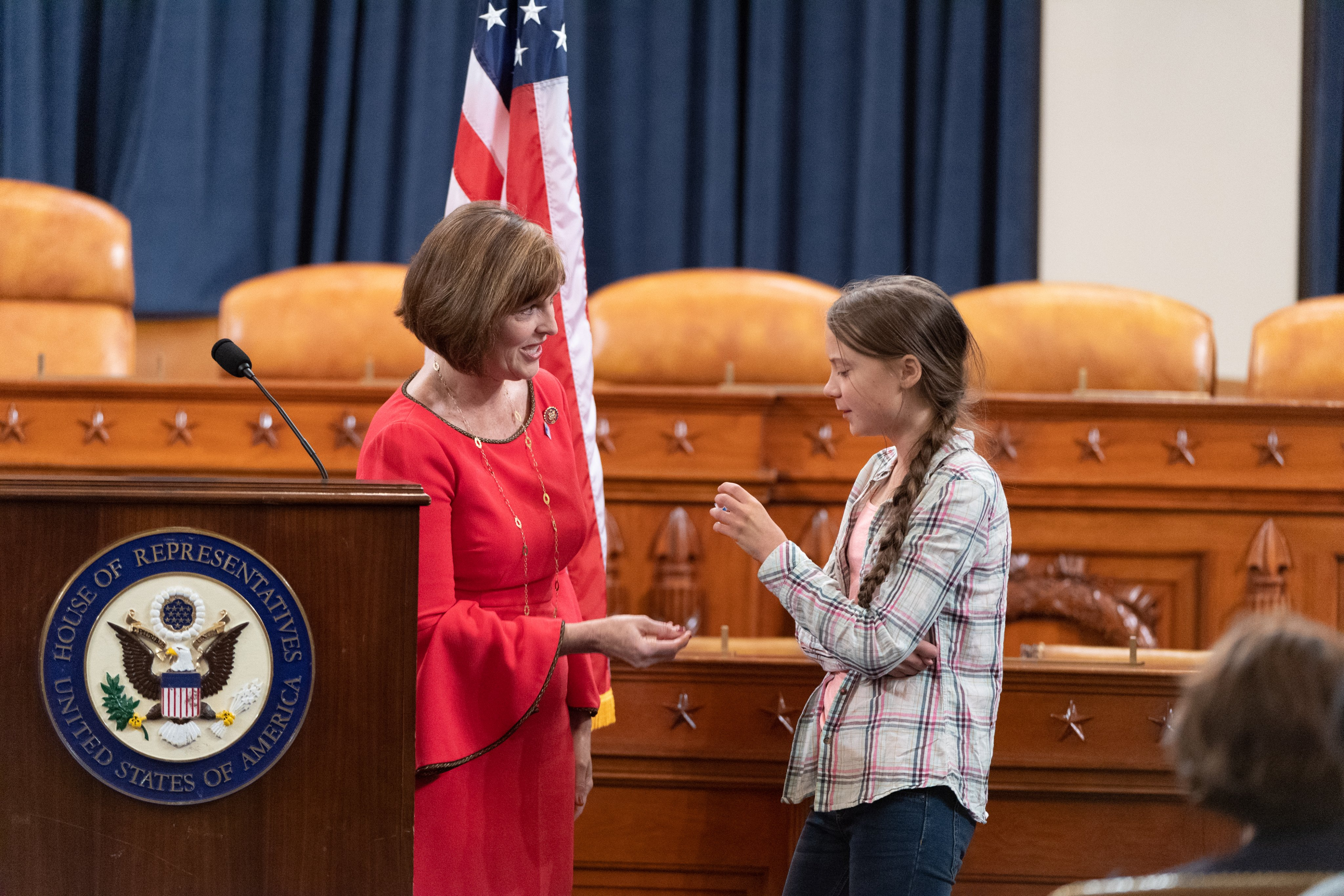 U.S. House Representative Kathy Castor talks with Swedish environmental activist Greta Thunberg in the Congress